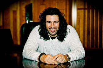 Profile Photo